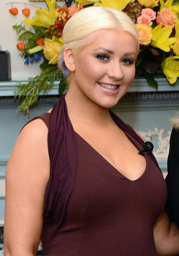 Christina Aguilera was presented George McGovern Leadship Award in October 2012.